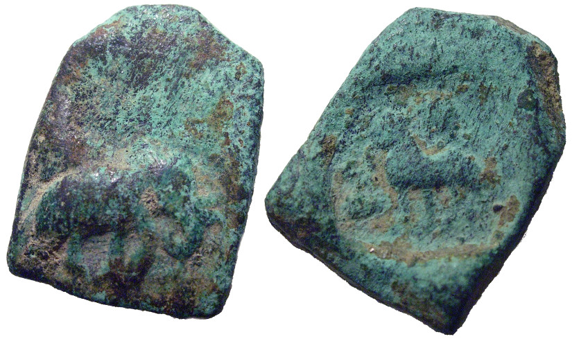 This is an ancient Indian Coin from Taxila, India, dating back to the 304-232 BC. One of the earliest style coins from ancient India. On the obverse, it has an Elephant advancing right, and on the reverse, a Lion standing left, with hill to left and swastika above.